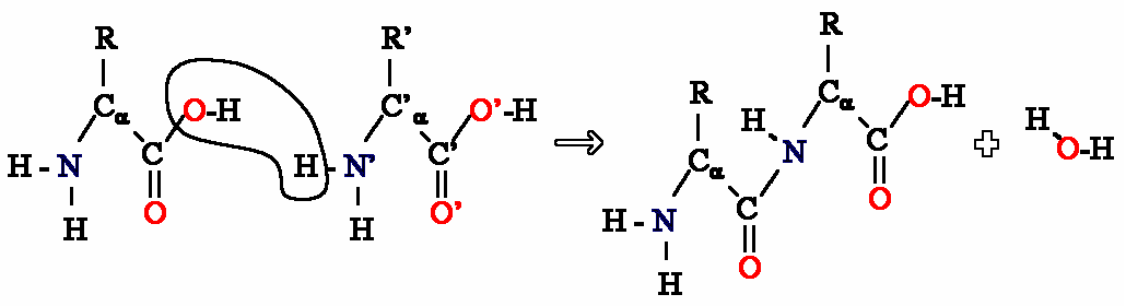 Created from editing of Image:2-amino-acids.png by Luke Surl.